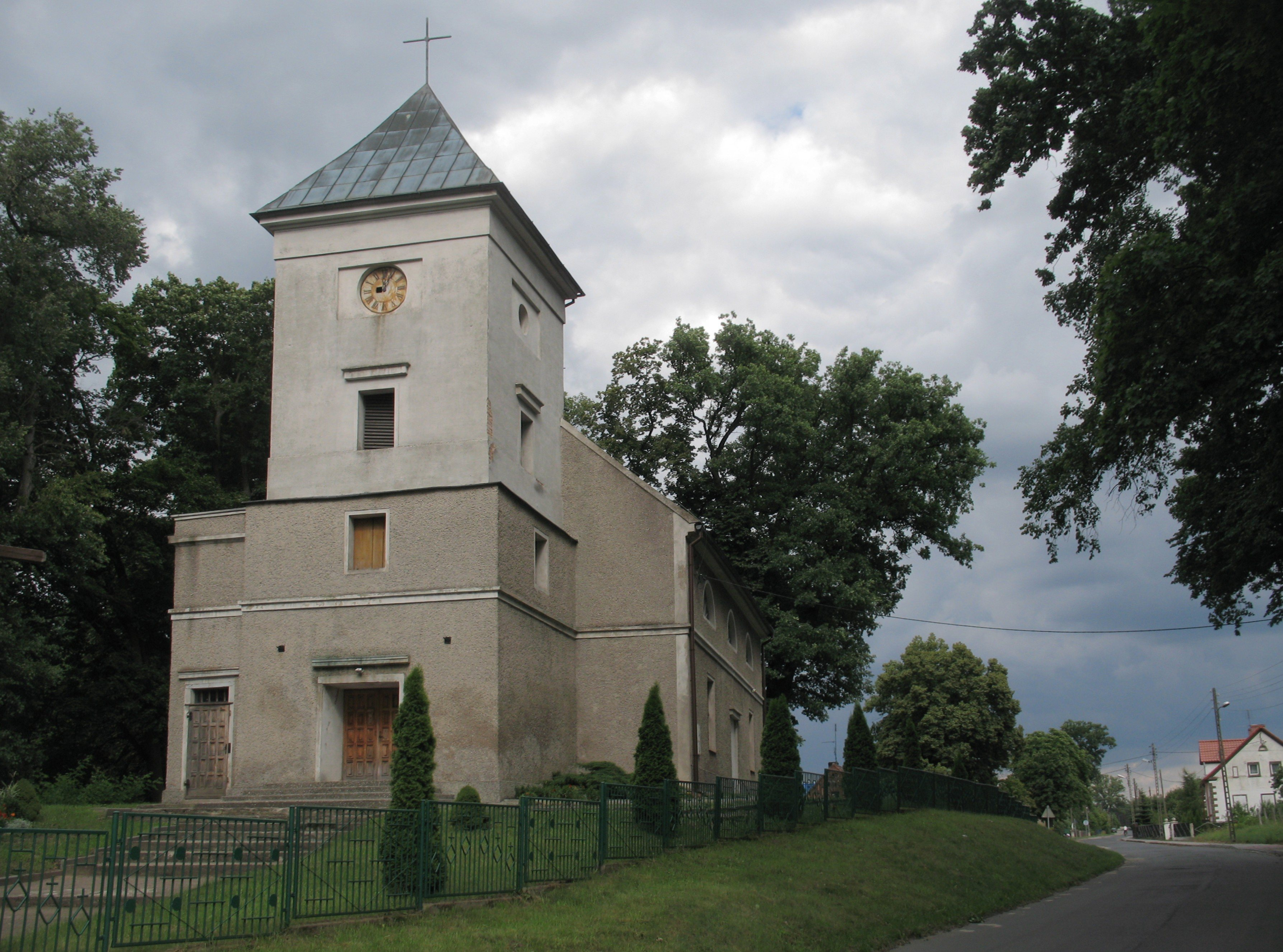 Saint Nicholas church in Drzonów, Lubusz Voivodeship